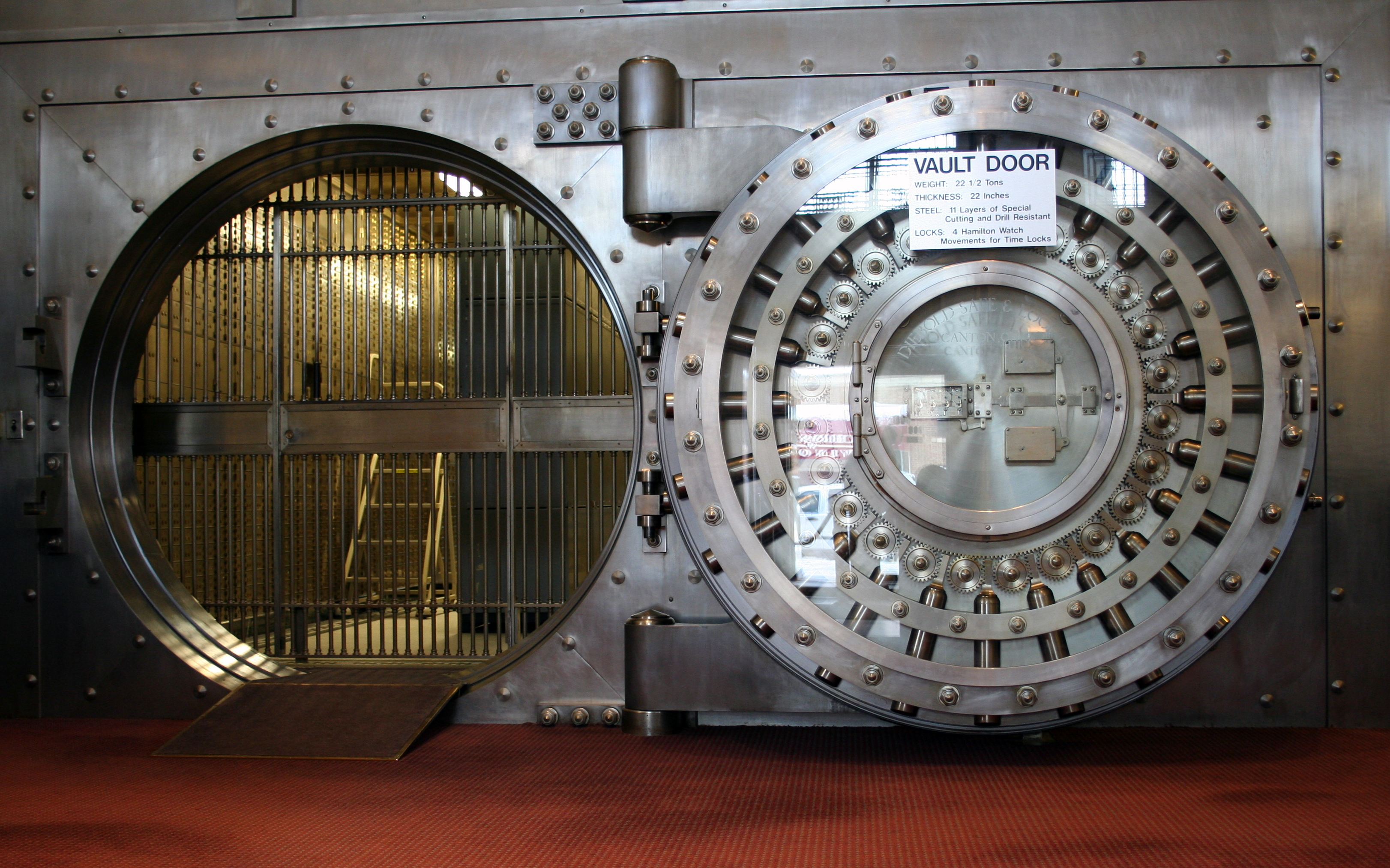 The door to the walk-in vault in the Winona Savings Bank in Winona, Minnesota, United States